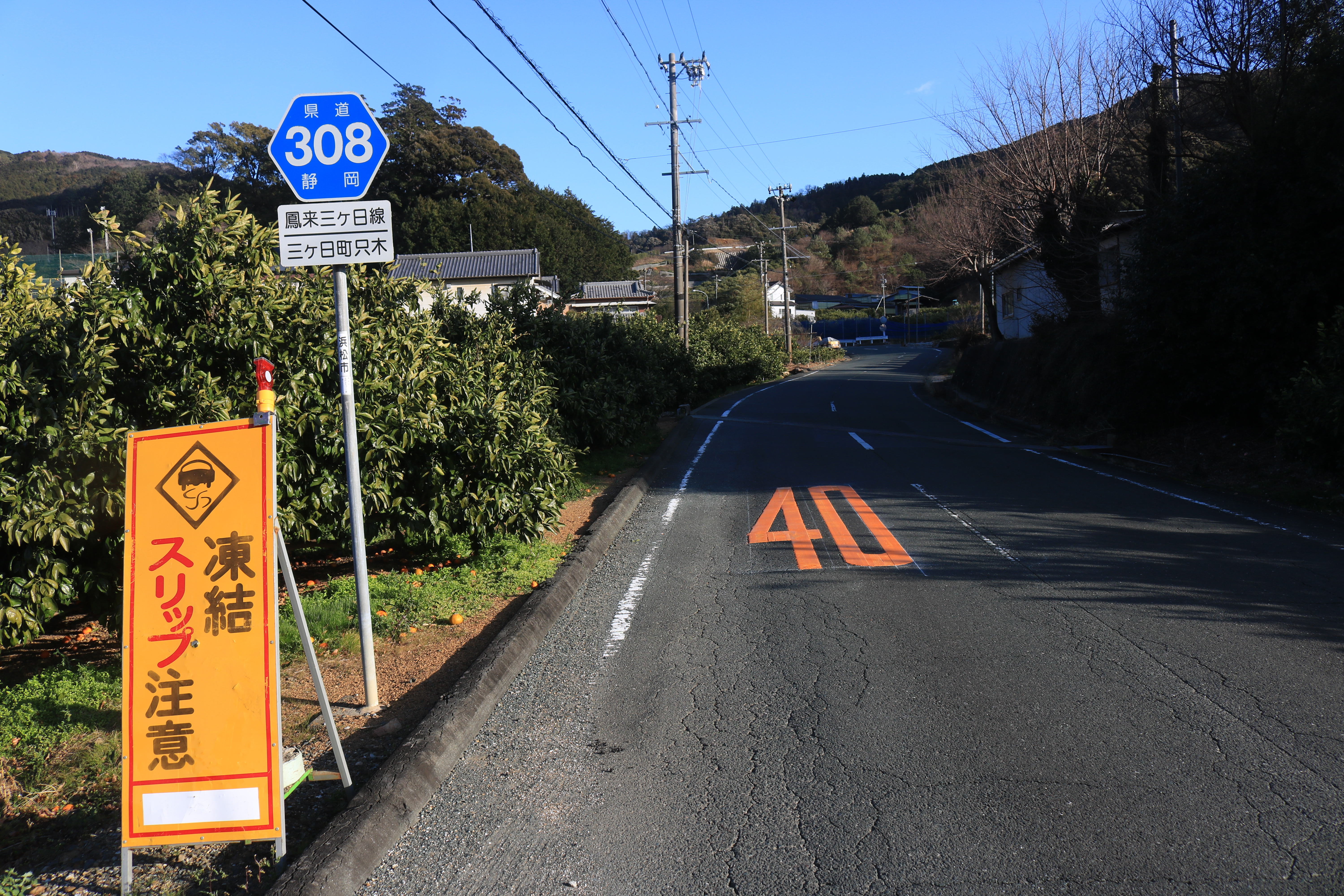 Shizuoka Prefectural Road Route 308 in Tadaki, Mikkabicho, Kita-ku, Hamamatsu, Shizuoka Prefecture, Japan.